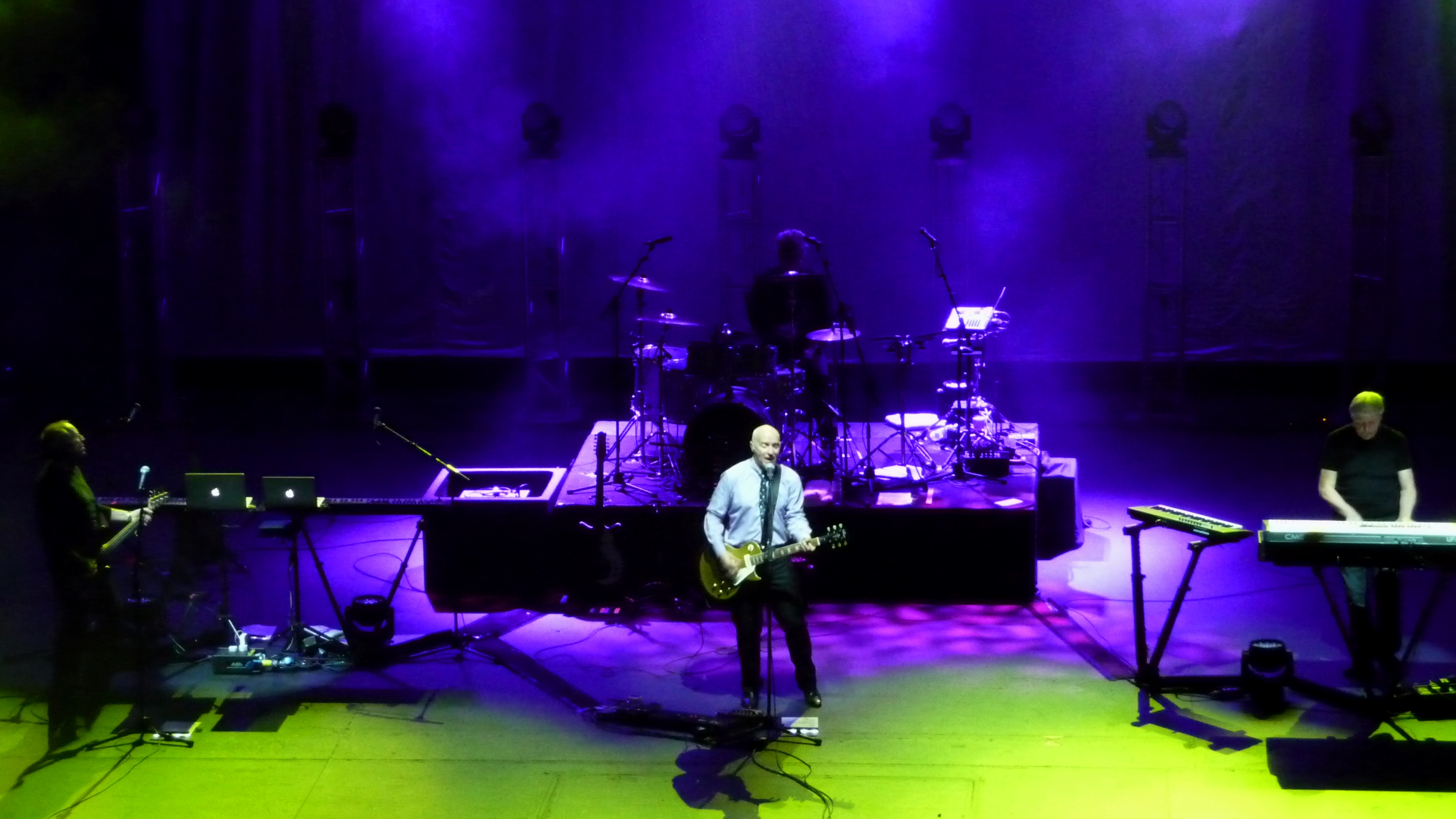 Ultravox playing "Brilliant" tour concert at Hammersmith Apollo, London